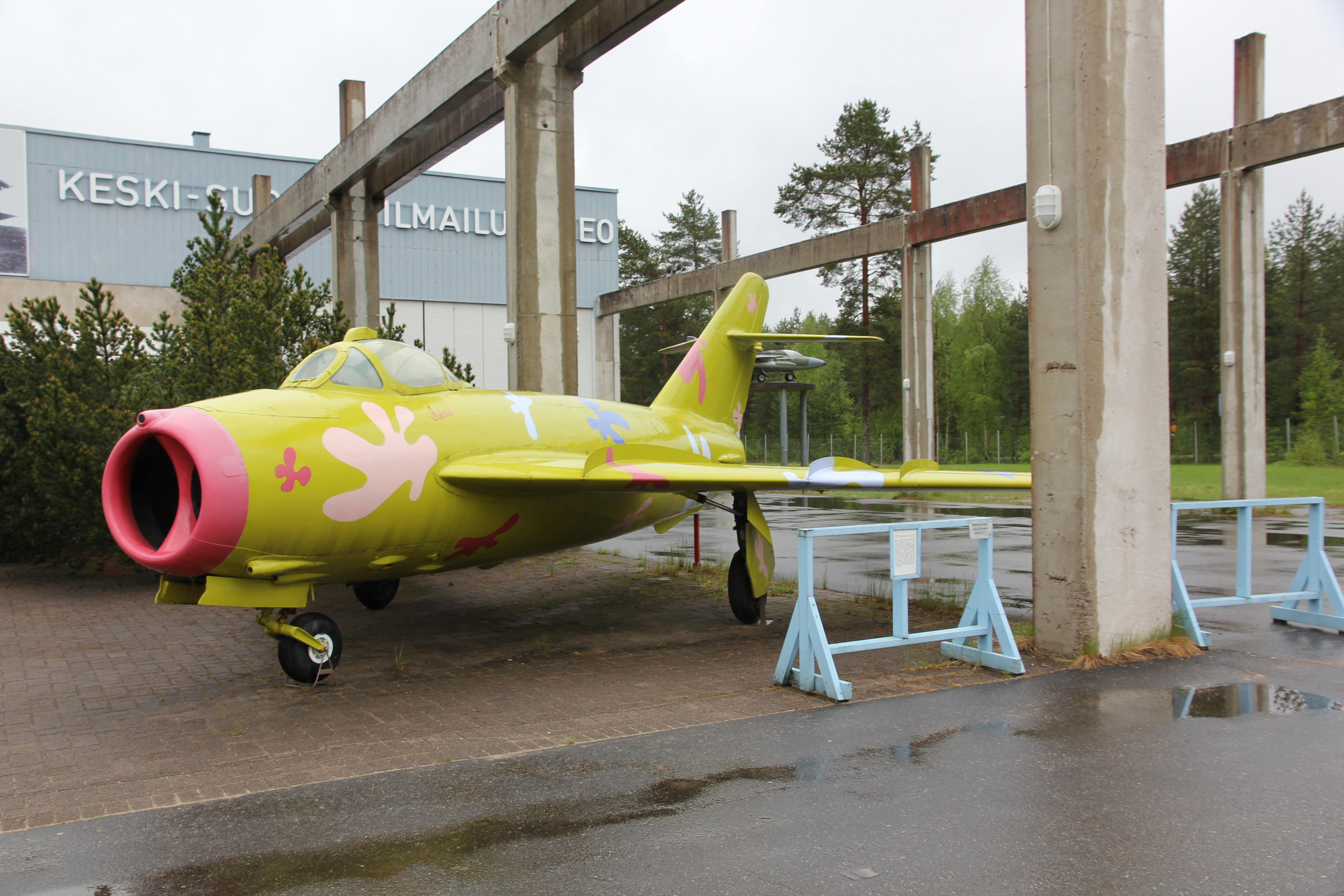 MiG-17 in the Aviation Museum of Central Finland. This type has never seen service in the Finnish air force; the aircraft was donated by Teräs Astra factory where it had been on display. The paintscheme is from 2006 and is based on the idea of Luonetjärvi primary school student Anni Lundahl.